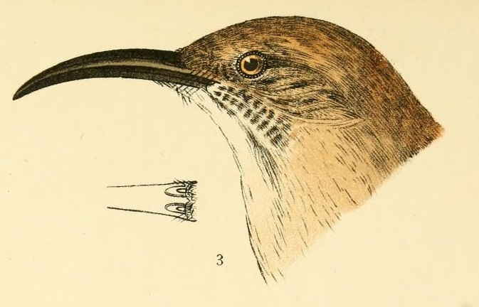 Leconte's Thrasher illustration from A history of North American birds / by S. F. Baird, T. M. Brewer, and R. Ridgway. 1905